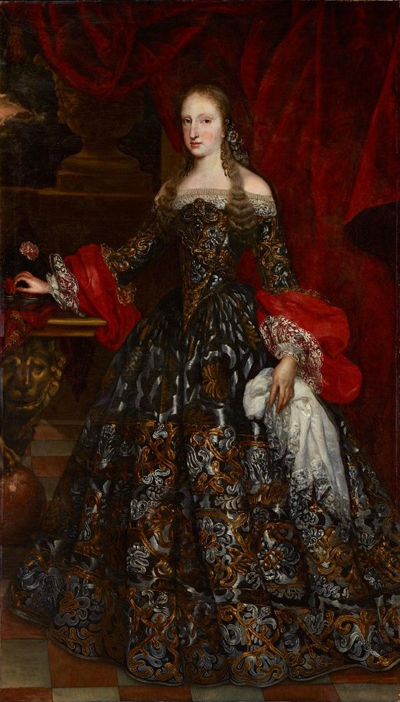 Maria Anna of Neuburg (1667-1740), queen of Spain